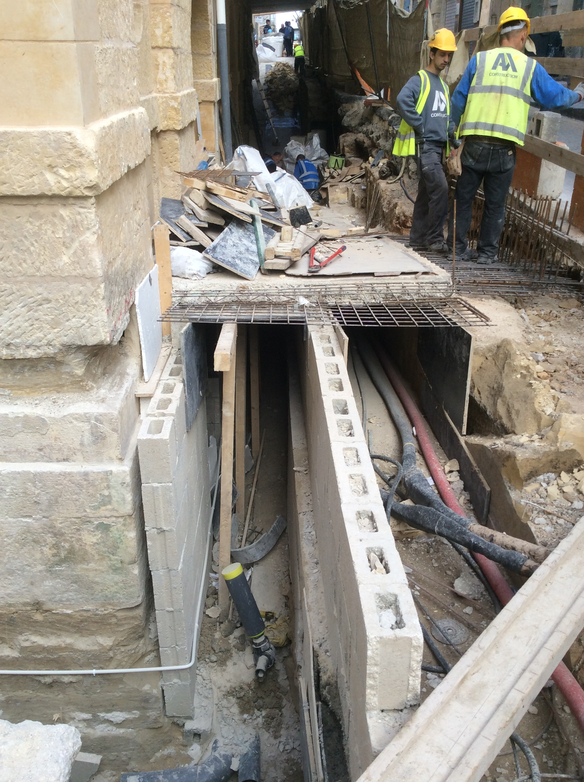 Is-Suq tal-Belt